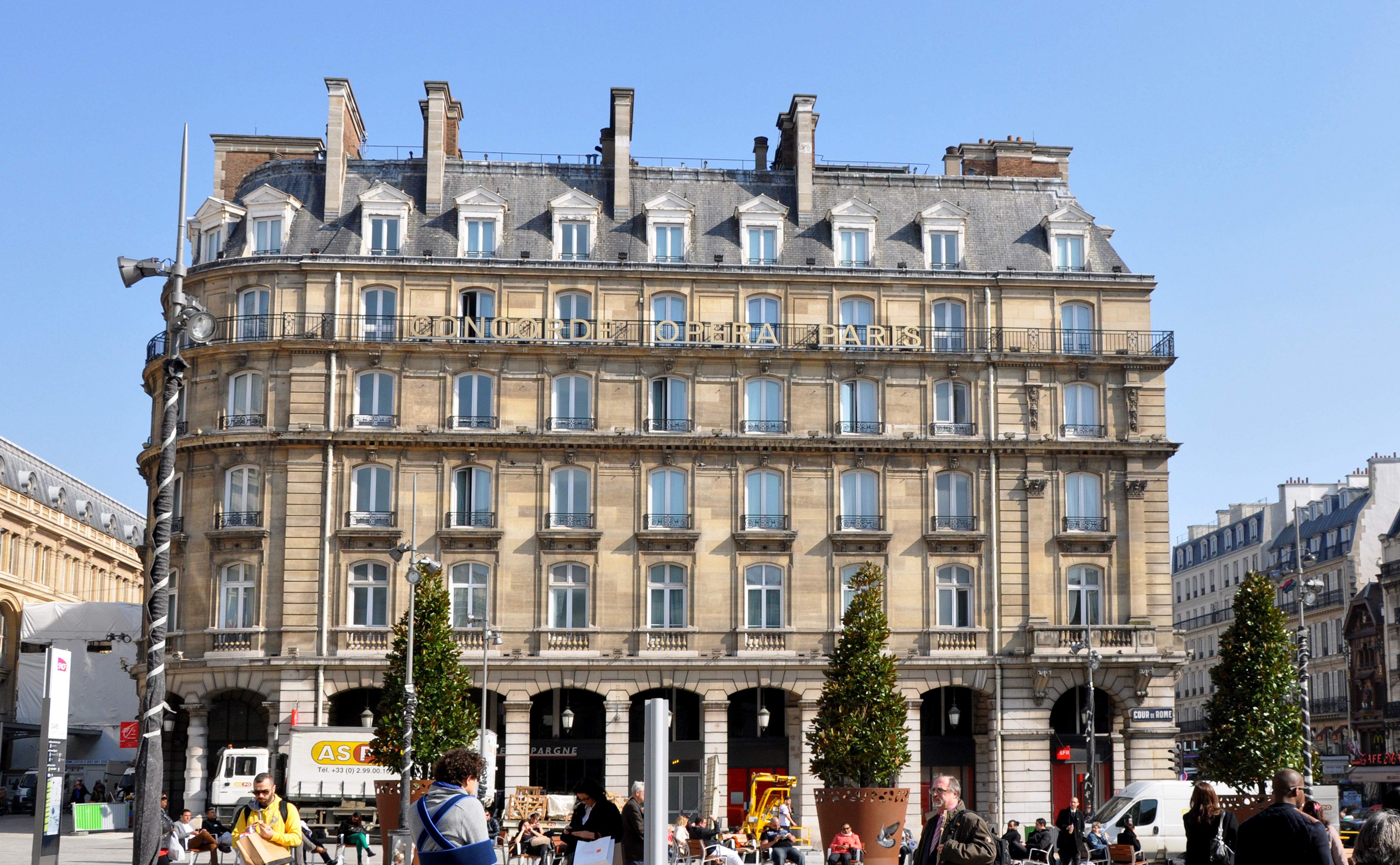 Hôtel Concorde (Paris), facade in cour de Rome